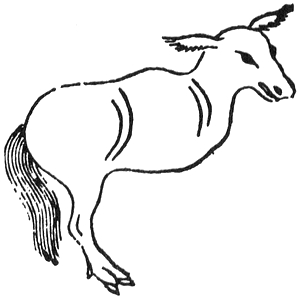 "Kui" (夔, a legendary creature in China) from the Shan Hai Jing (山海经, Chinese picture)